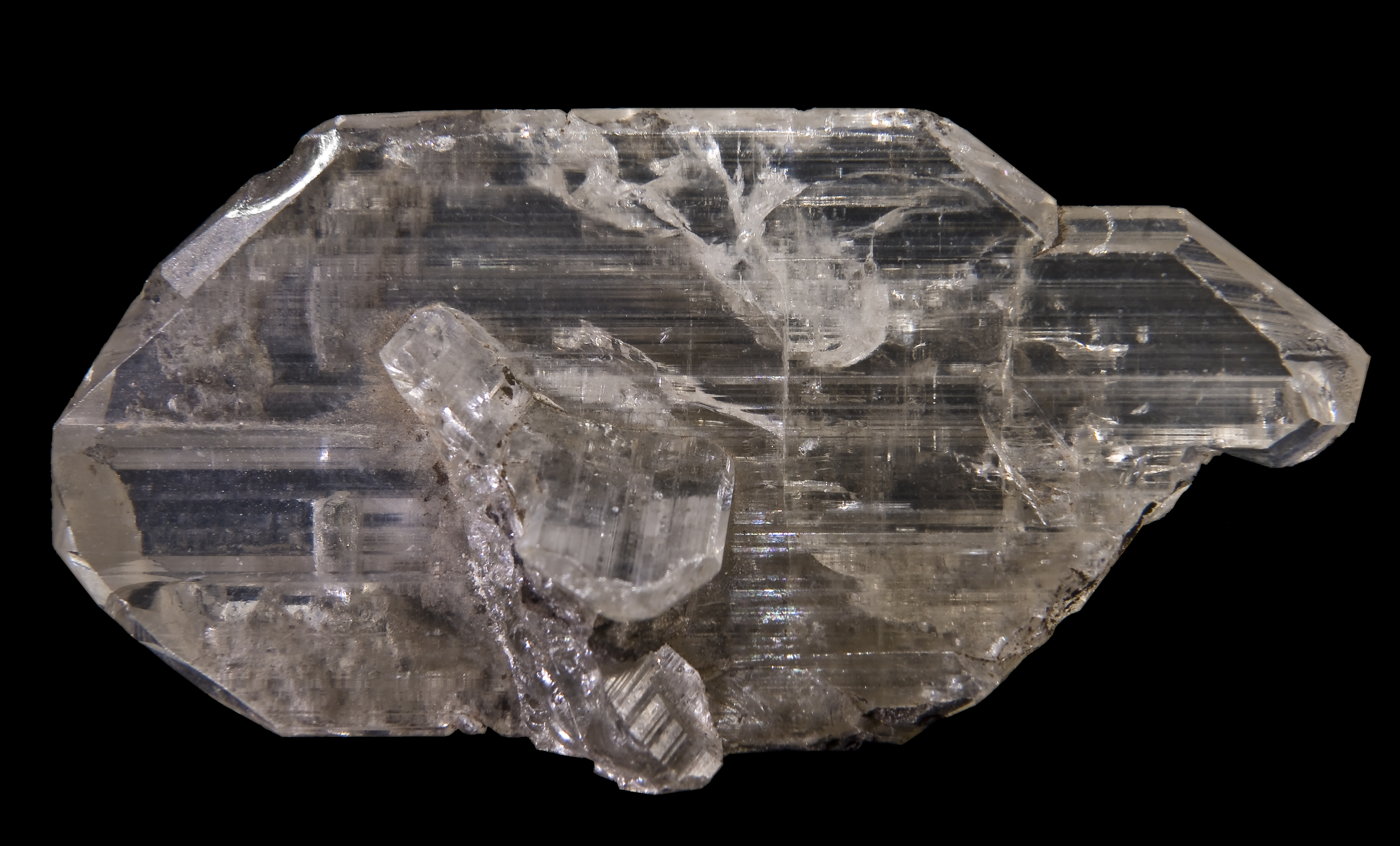 Anglesite - Touissit, Touissit District, Oujda-Angad Province, Oriental Region, Morocco - 4.7x2.3cm